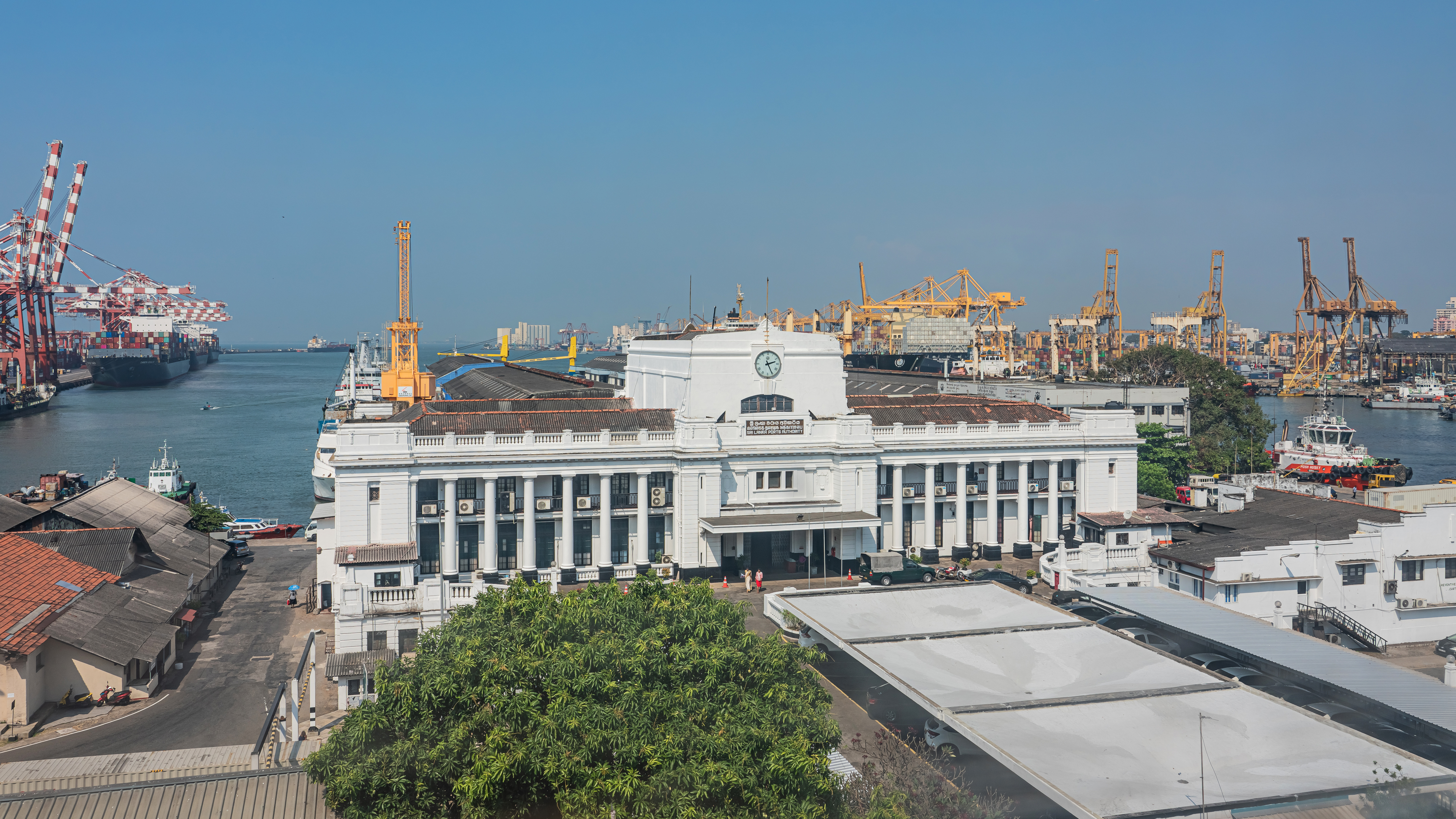 View from Grand Oriental Hotel towards the sea port in Colombo, Sri Lanka